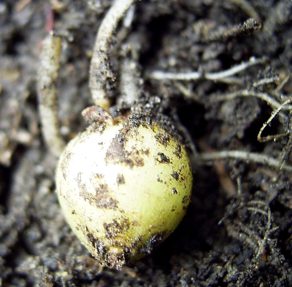 Young tuber of Solanum tuberosum